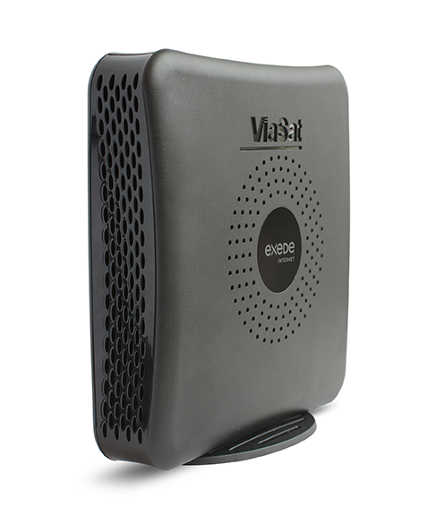 Exede WiFi modem